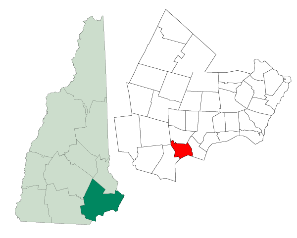 Map of a municipality in Rockingham County, New Hampshire